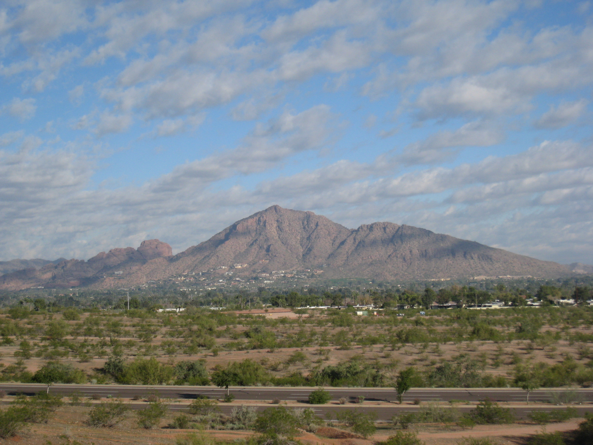 Sunday morning view of Camelback Mountain from Papago Park in Phoenix